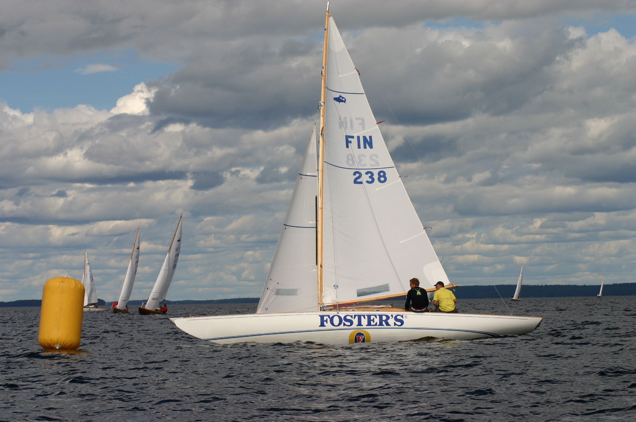 Hai-class keelboats in competition